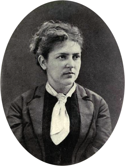 Fanny Osbourne, shortly before her meeting with Robert Louis Stevenson.